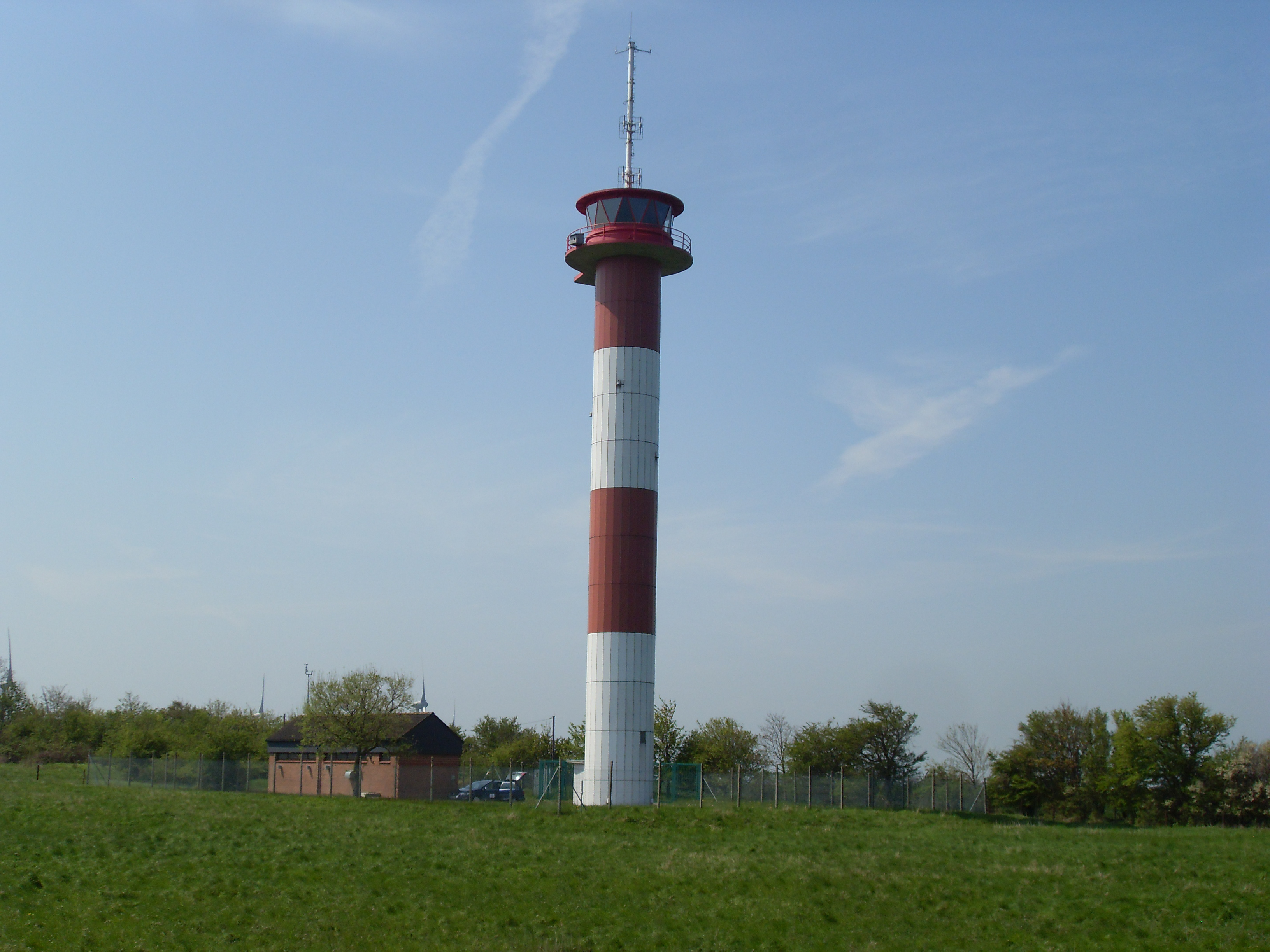 Lighthouse Marienleuchte from north-east